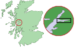 Map showing the location of Loch Leven in Scotland Original work of submitter. Source of map outline was Image:Scotland_Map.png, template was Image:Scotland_Map_(Firth_of_Lorn_Detail).png